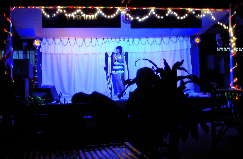 Thai karaoke bar